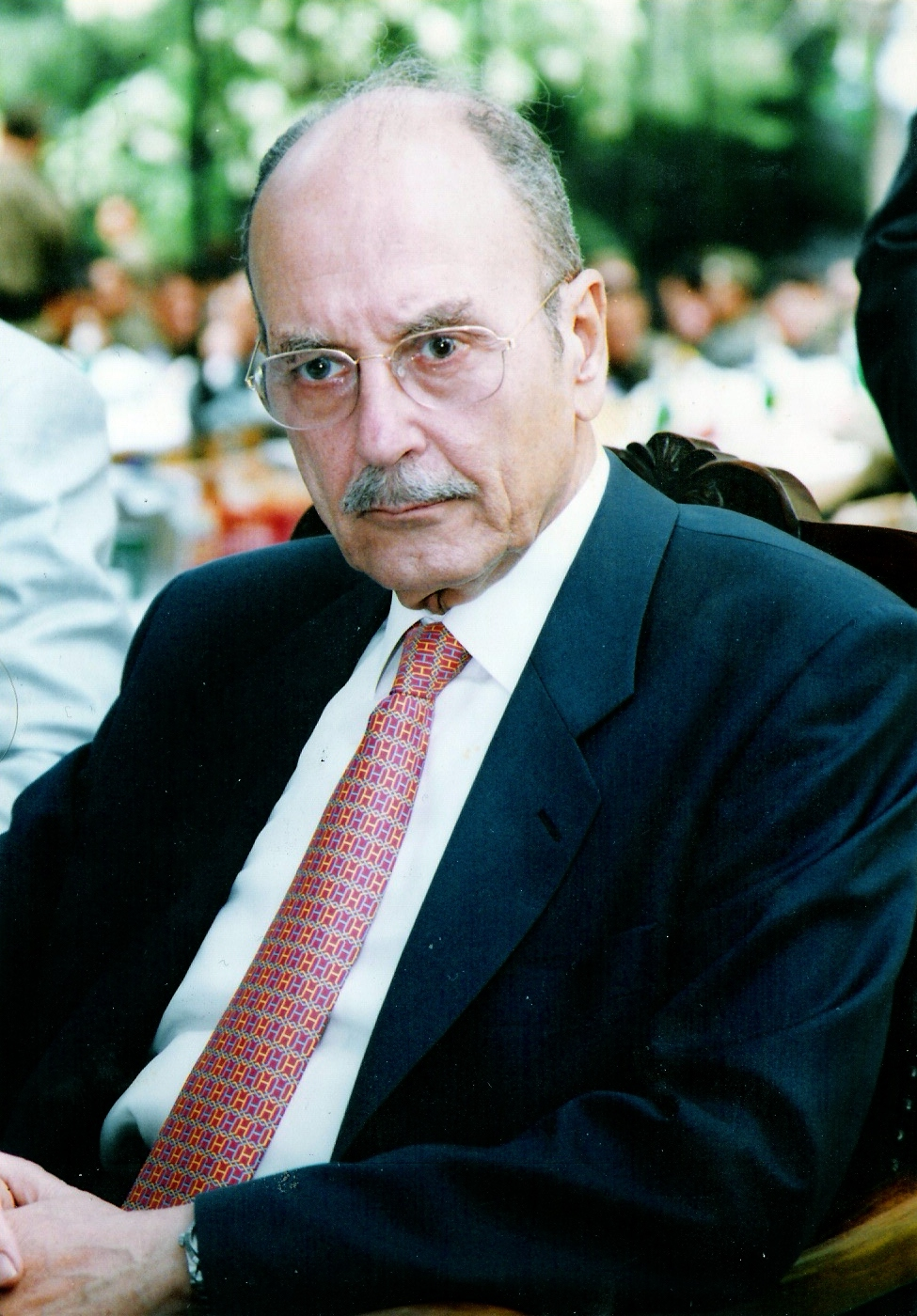 The former President of the Hellenic Republic Kostis Stephanopolos